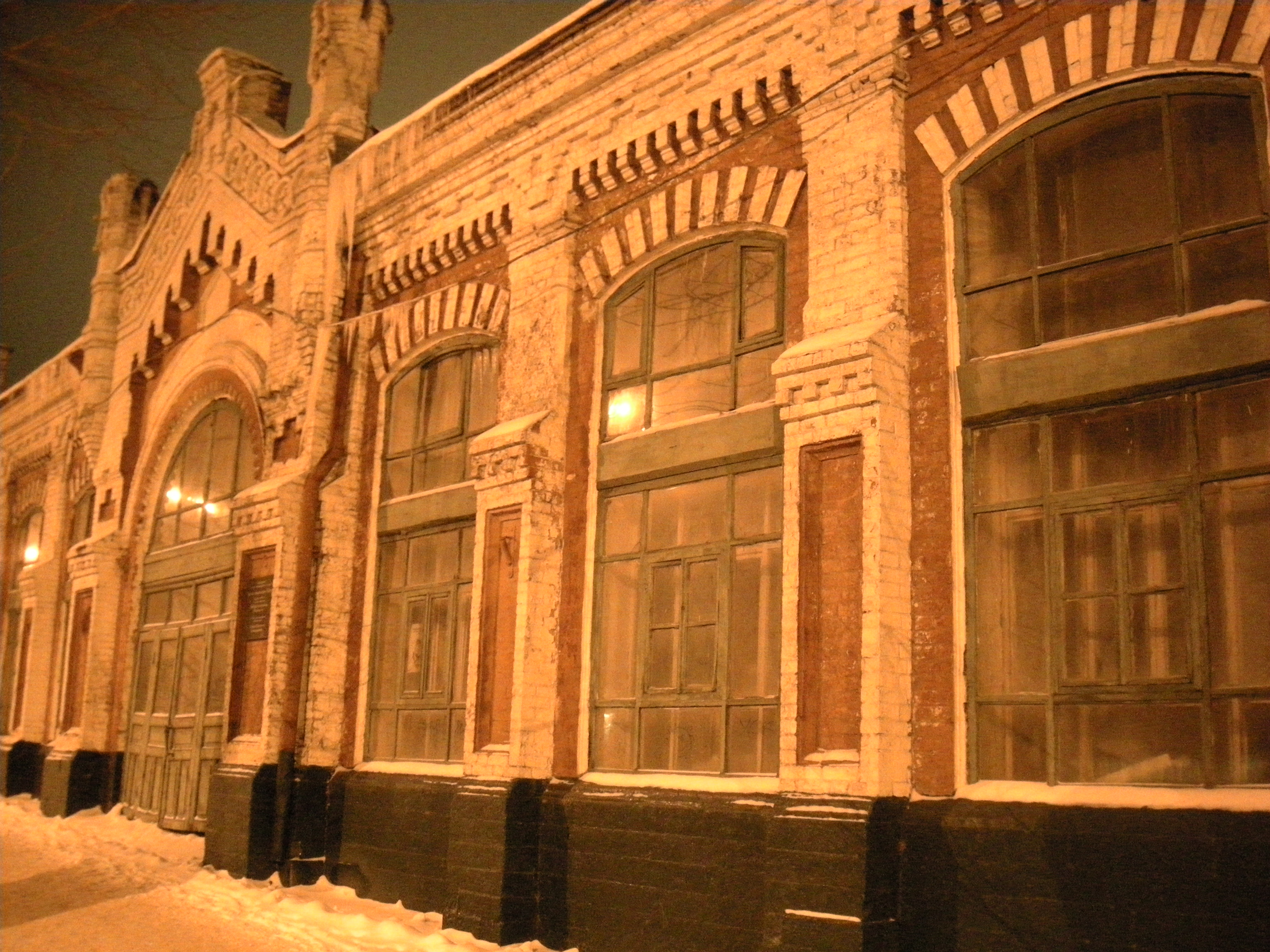 Printing plant in Ulyanovsk, Russia